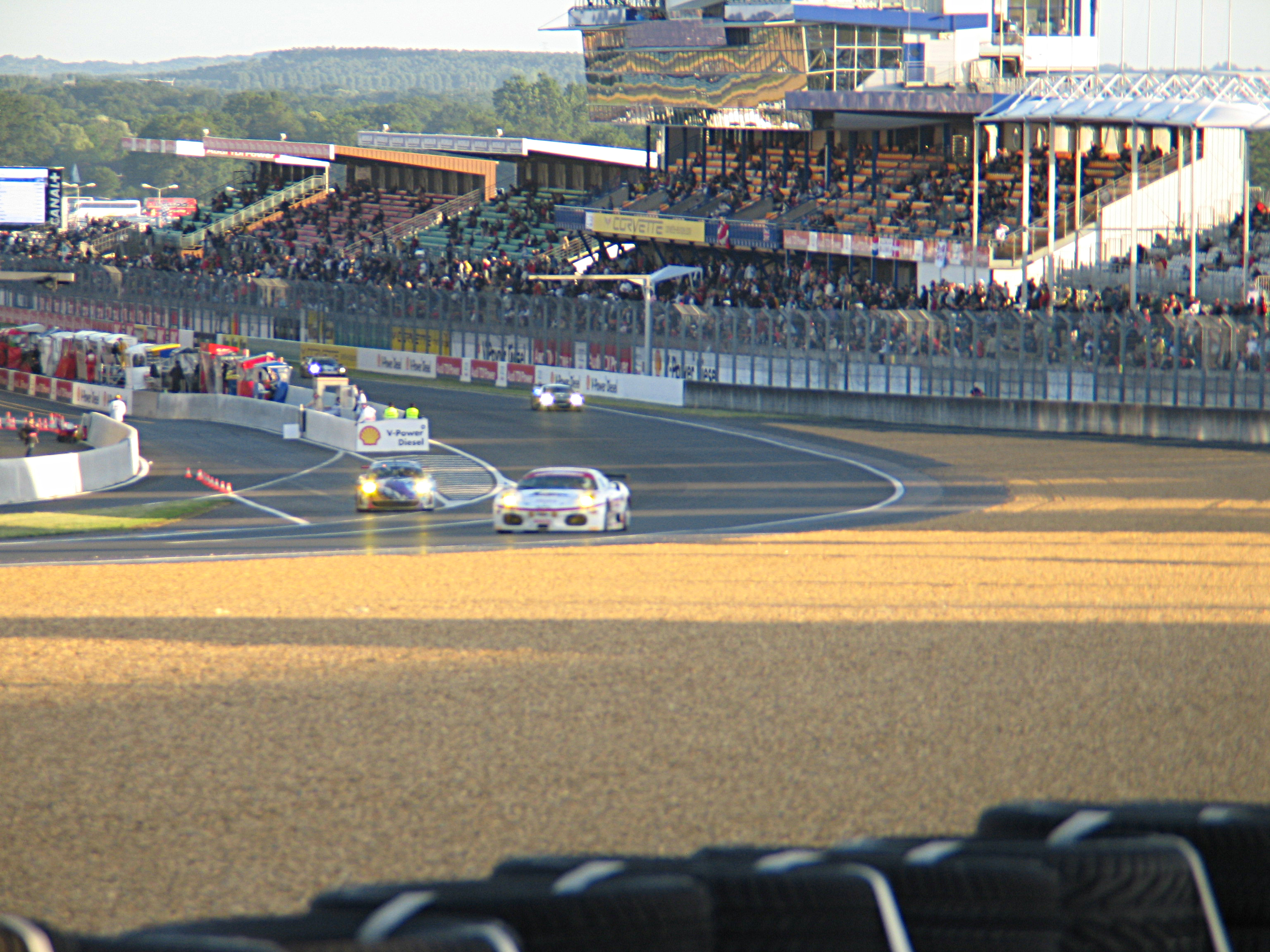 The Dunlop Curve during the 2007 24 Hours of Le Mans